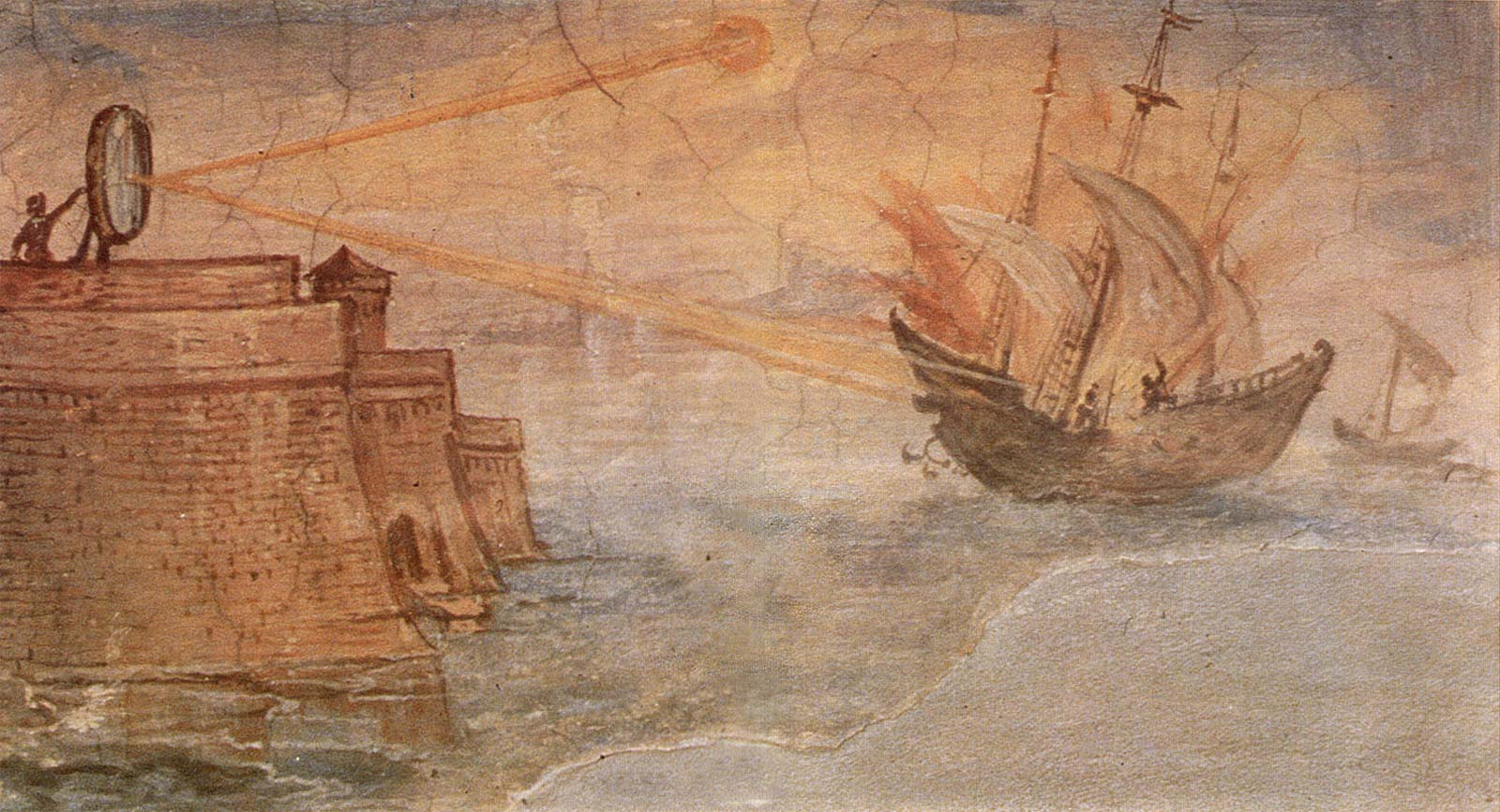 Wall painting from the Uffizi Gallery, Stanzino delle Matematiche, in Florence, Italy, showing the Greek mathematician Archimedes' mirror being used to burn Roman military ships. Painted in 1600